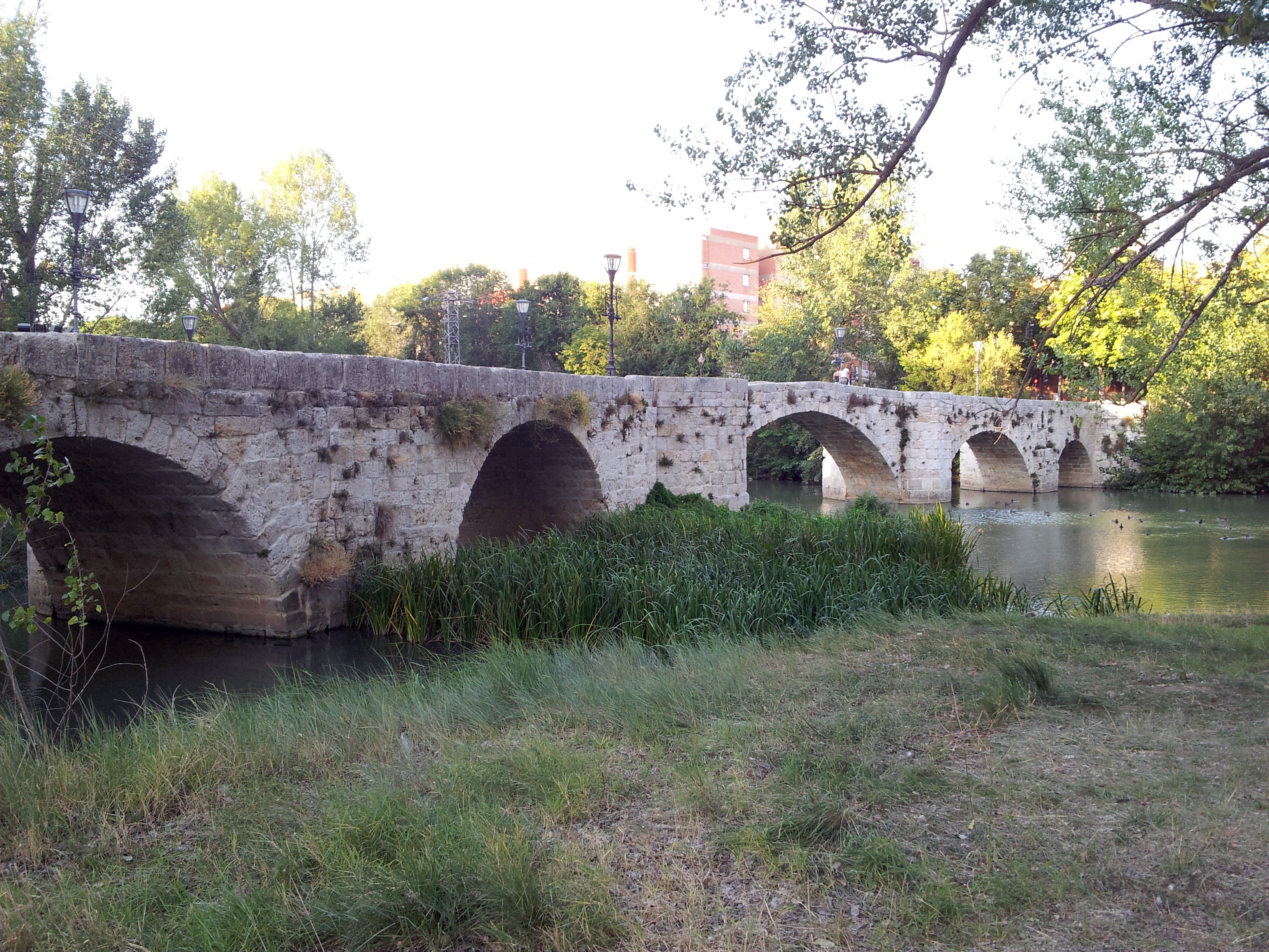 Puentecillas bridge, Palencia. (Palencia, Spain)